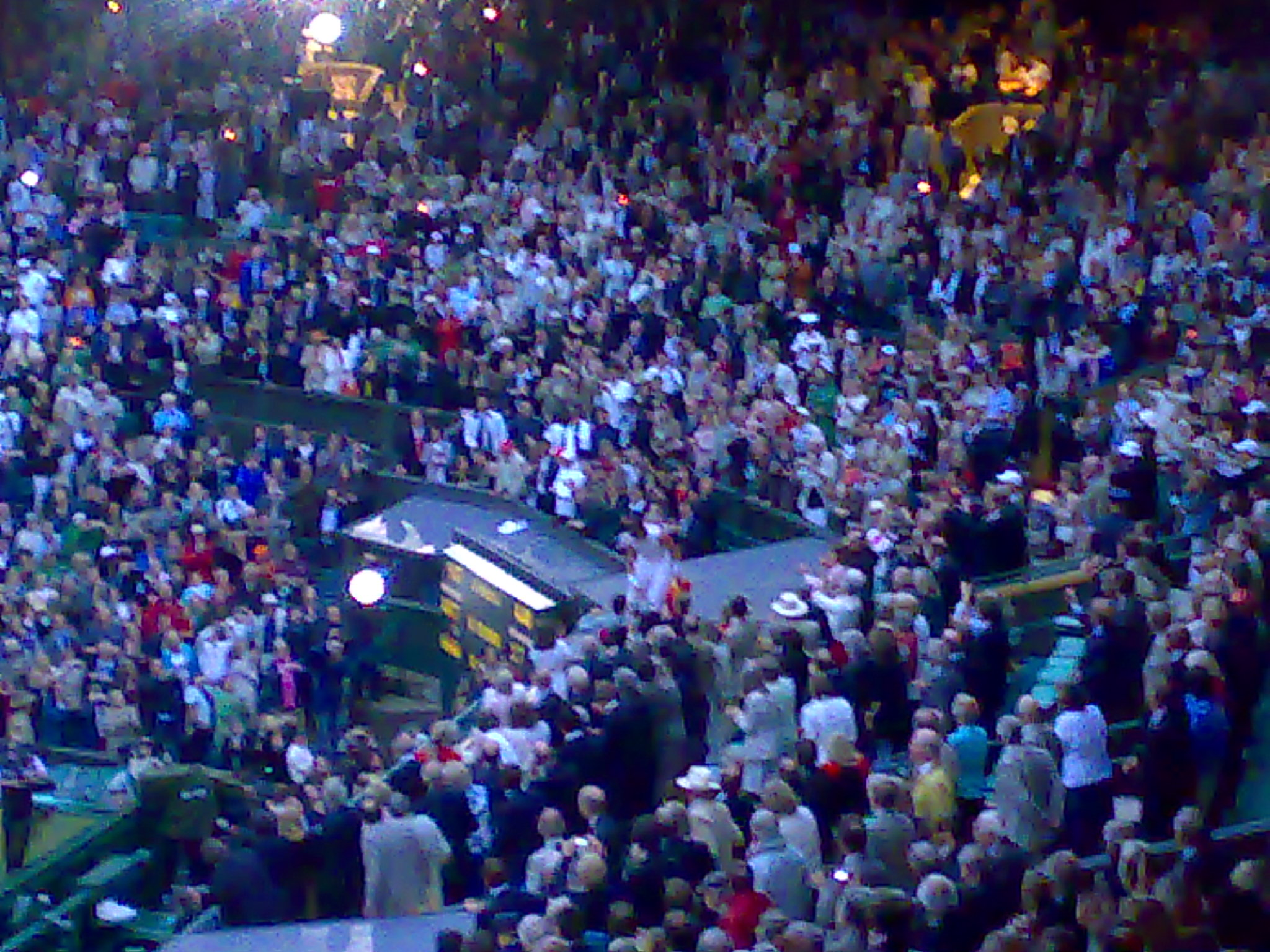 Rafael Nadal walks over a commentary box roof to receive the congratulations of the Prince and Princess of Asturias after winning the 2008 Wimbledon men's singles final